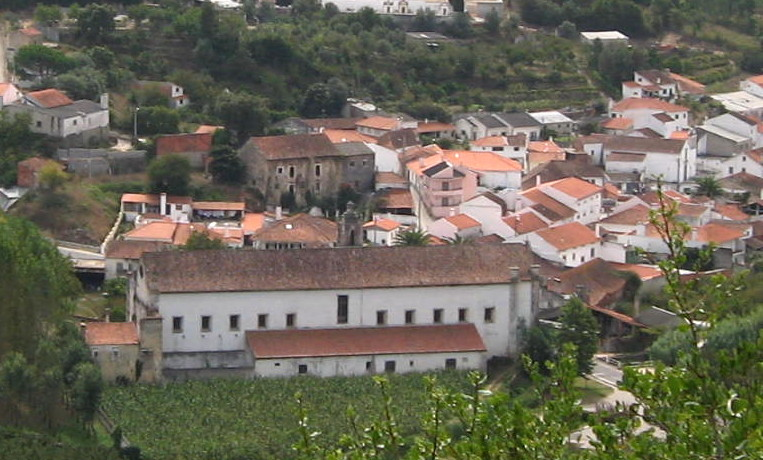 Alcobaça, Portugal, Monastery, Coutos of Alcobaça, Cós one of the former 13 old cities of the Coutos, northern part of the church of the monastery